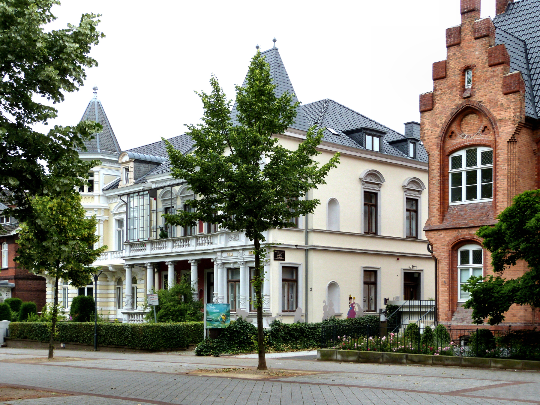 Listed location of the fairy tale museum in Bad Oeynhausen This image shows a heritage building in Germany, located in the North Rhine-Westphalian city Bad Oeynhausen (no. 72).